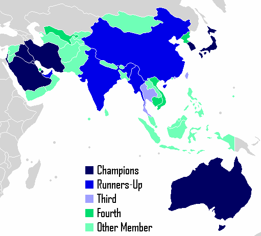 AFC Asian Cup best result map